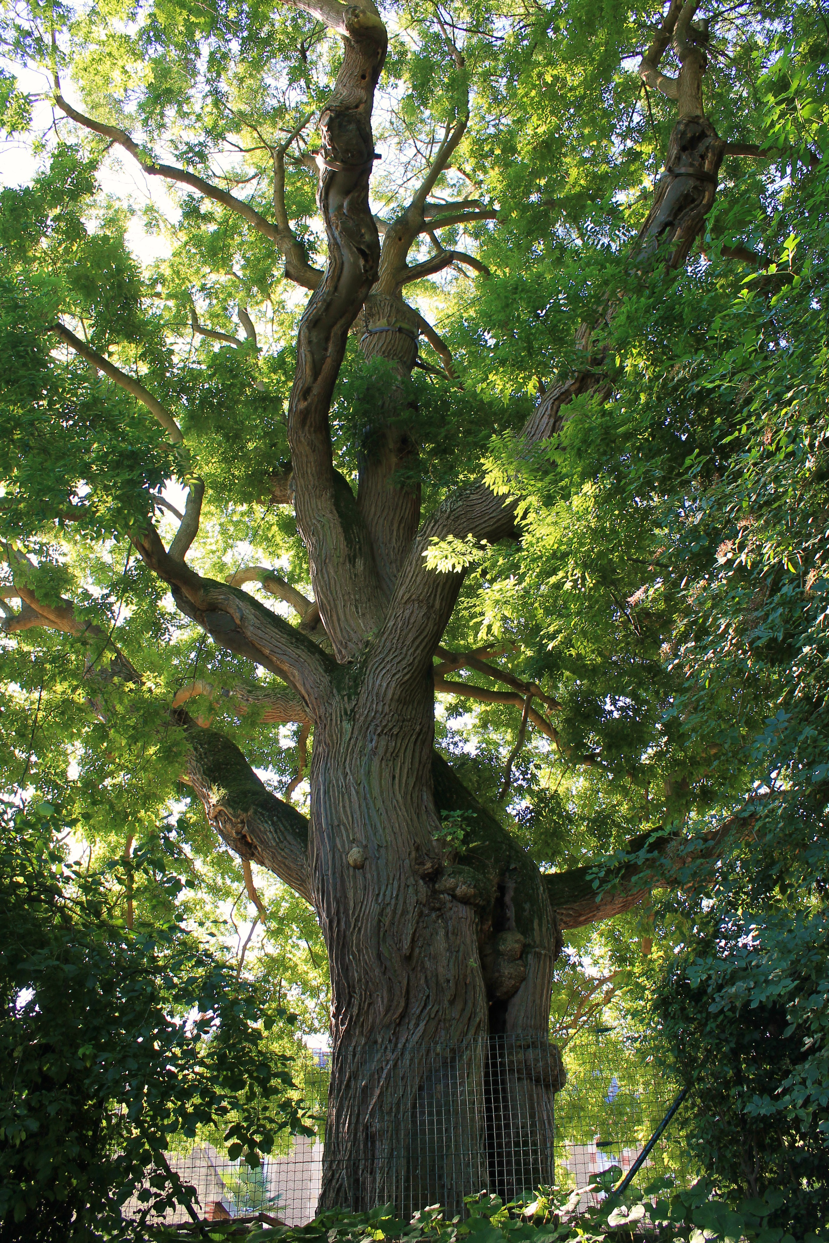 Styphnolobium japonicum (1750) (Caen/Normandie/France)